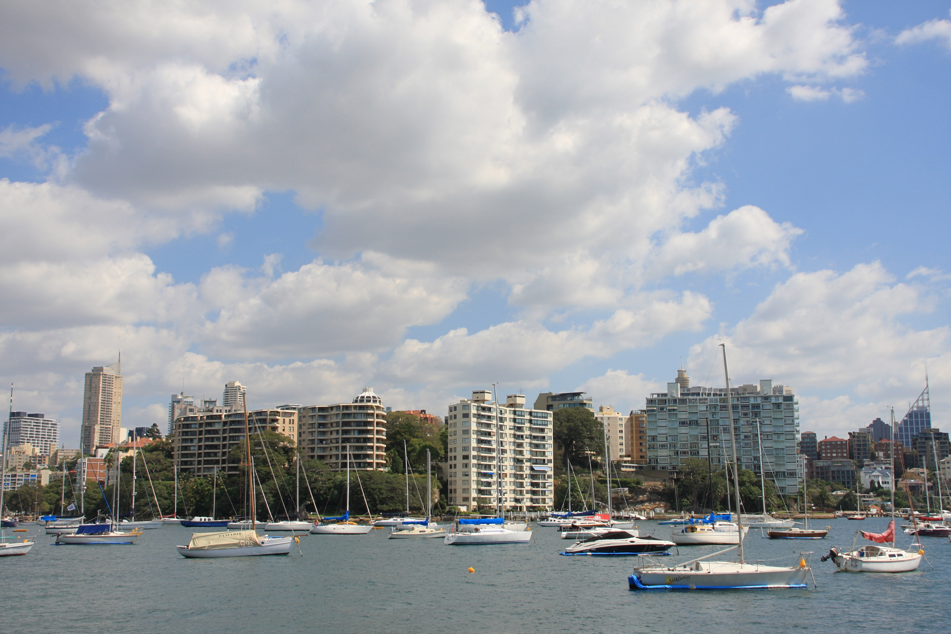 Elizabeth Bay From Darling Point New South Wales Australia